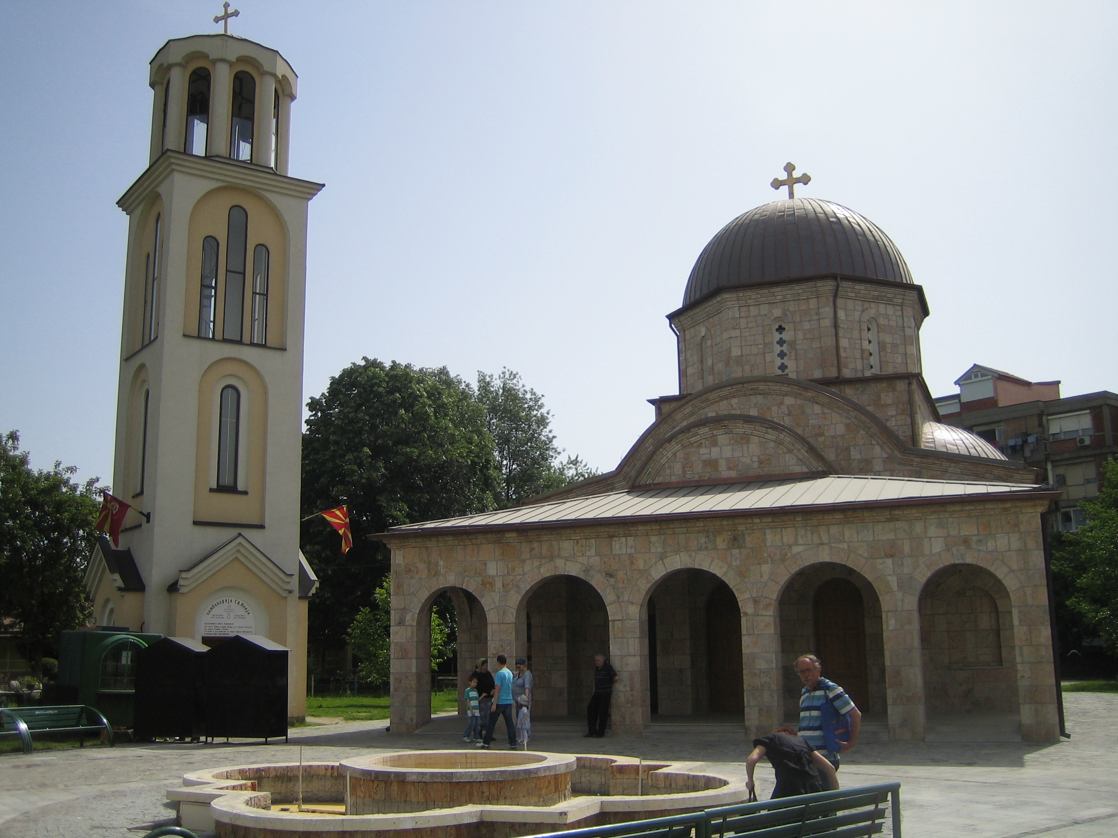 The church Saint Ilija in Aerodrom, Skopje.